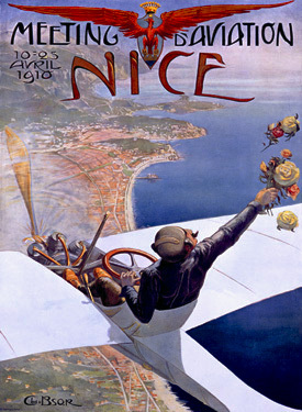 Poster du meeting d'aviation de Nice du 10 au 25 avril 1910.